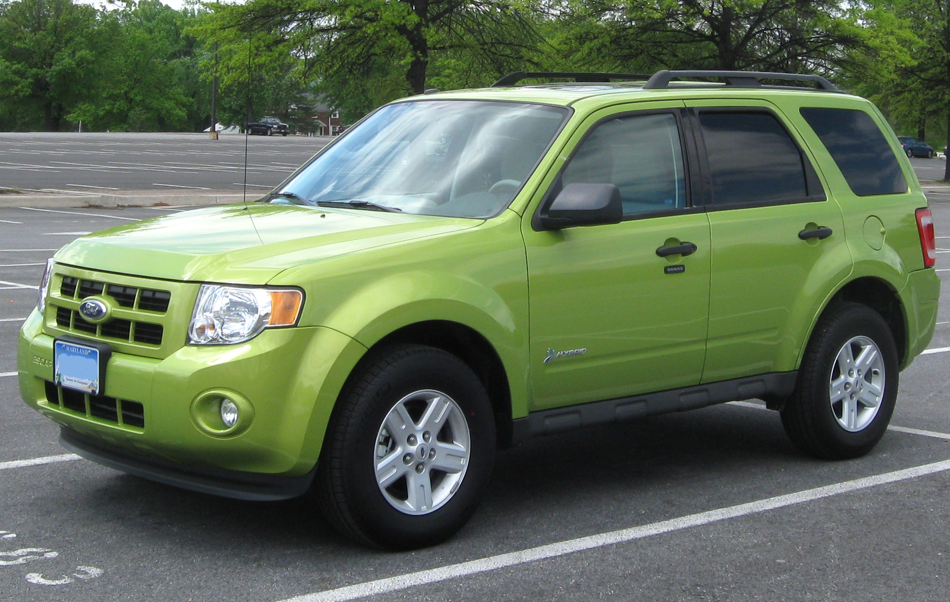 Ford Escape Hybrid photographed in College Park, Maryland, USA.